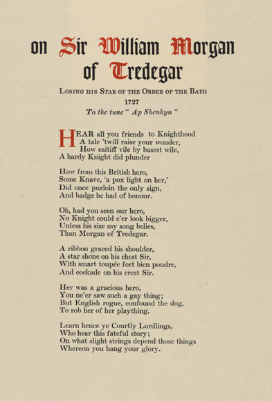 Sir William Morgan of Tredegar